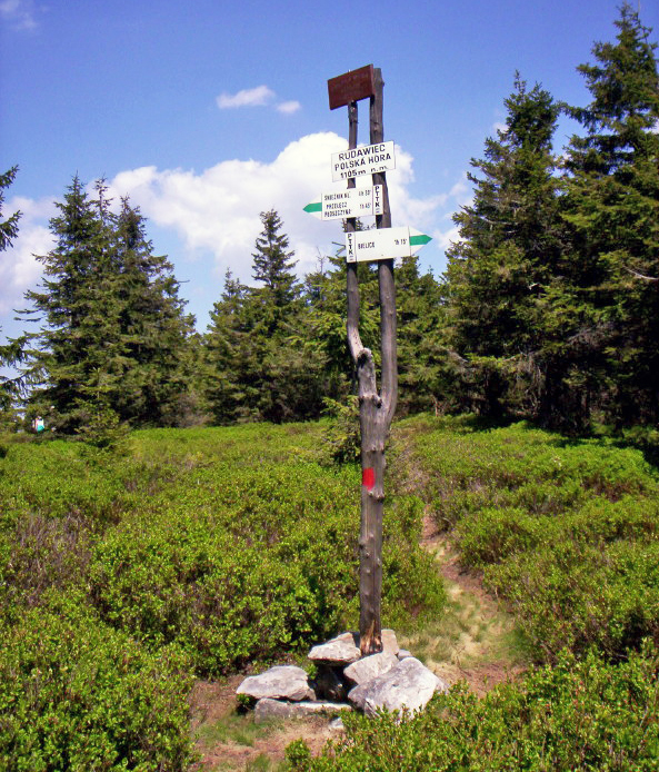 Rudawiec in Bialskie Mountains, Sudety Mountains, Poland